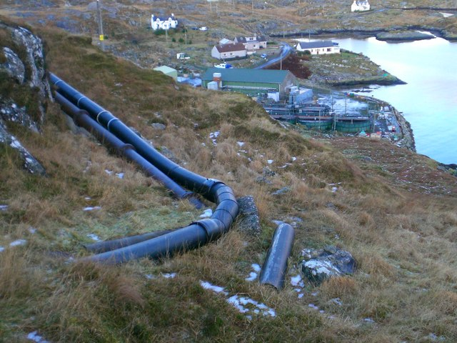 Geocrab Hatchery There are two pipes that run from Loch na Eilein down the hill to the salmon hatchery at the shore. One is an old cast iron pipe, the other, more recent addition is plastic. The hatchery site was originally a mill, and one of the workers there once told me that there are still the remains of a large water wheel within the main building. Nowadays it produces thousands of young salmon that are exported mainly via a "wellboat" or live fish carrying ship, that comes into the bay. The fish are taken out to the sea cages where they are grown on, before harvesting and shipping to the mainland for processing. Salmon is still a big employer on the island - despite the recent consolidation of the industry.